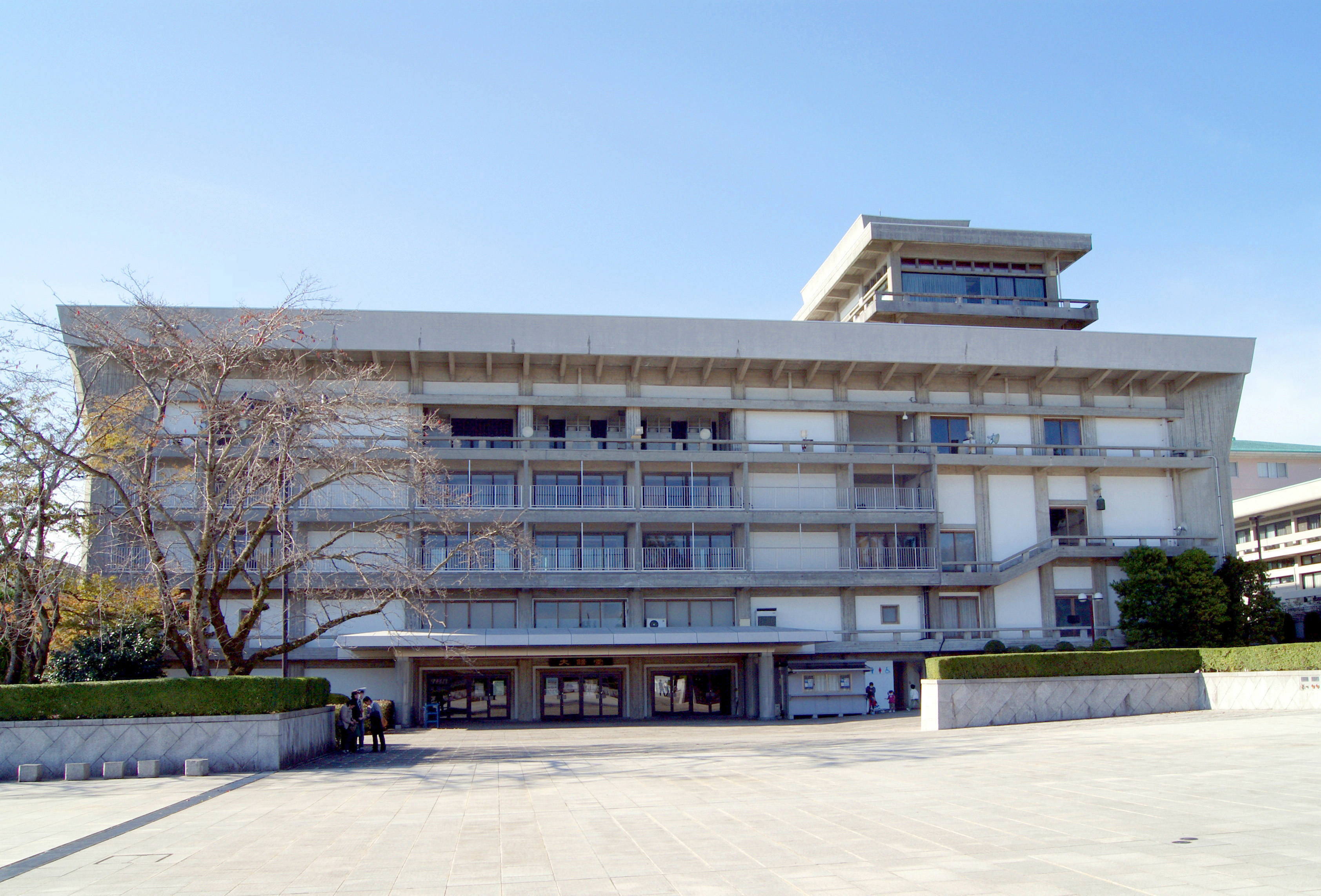 Daikō-dō of Taiseki-ji.